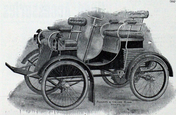 1901 Alldays Traveller. This little voiturette was a licenced copy of the De Dion-Bouton 3½ CV Type D Vis-a-Vis.